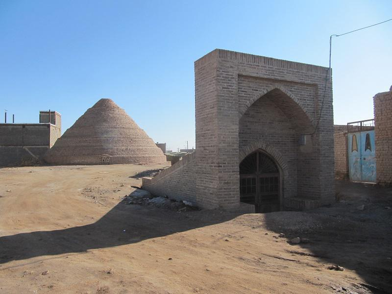 Jangal City Reservoir at Khorasan